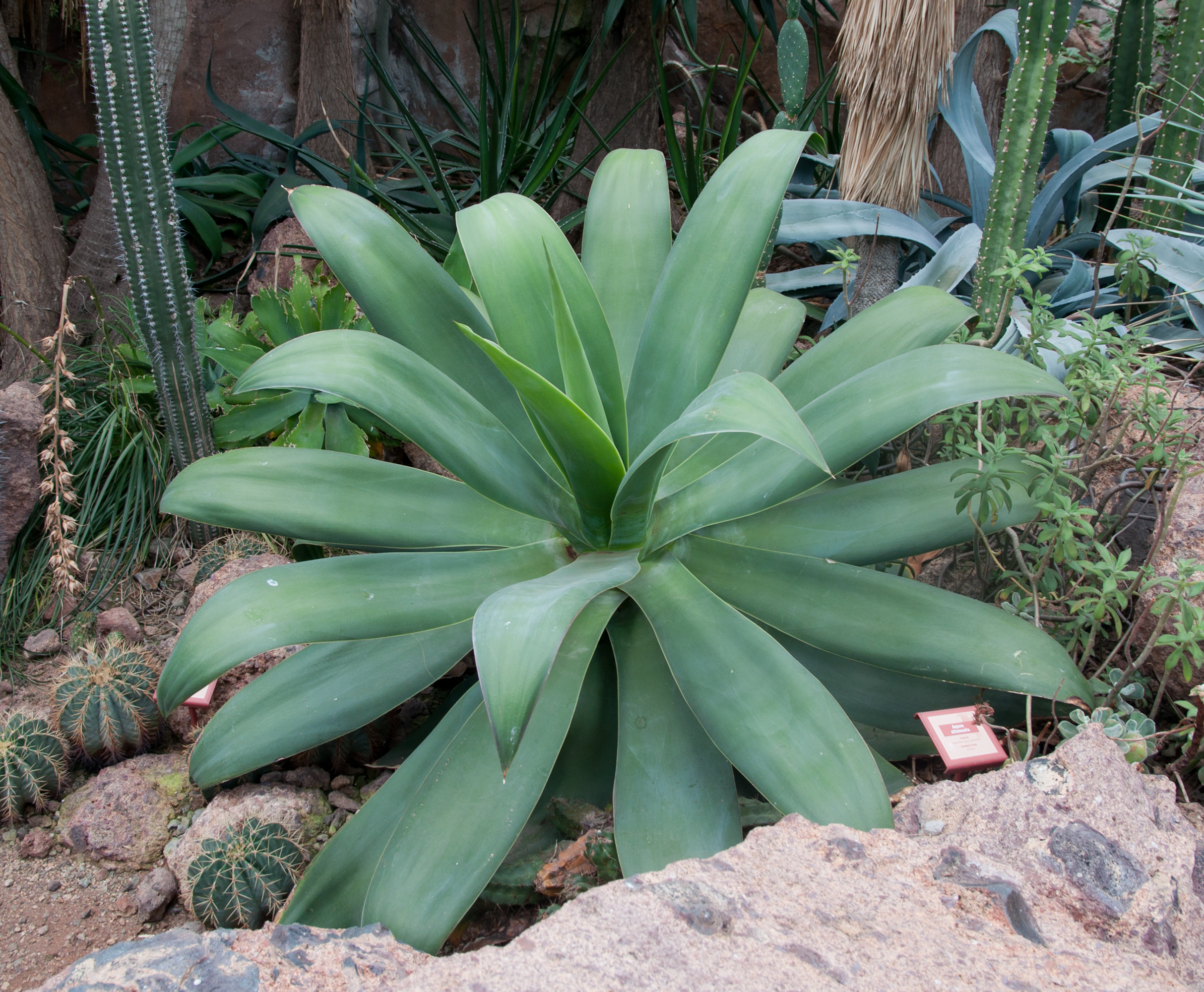 Agave attenuata found in the Sundial House (Desert house), Schönbrunn palace, Vienna.